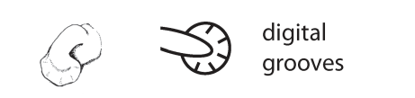 Standard Event System character depiction